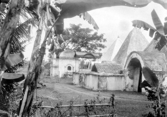 Cemetery with the graves of the kings of Goa